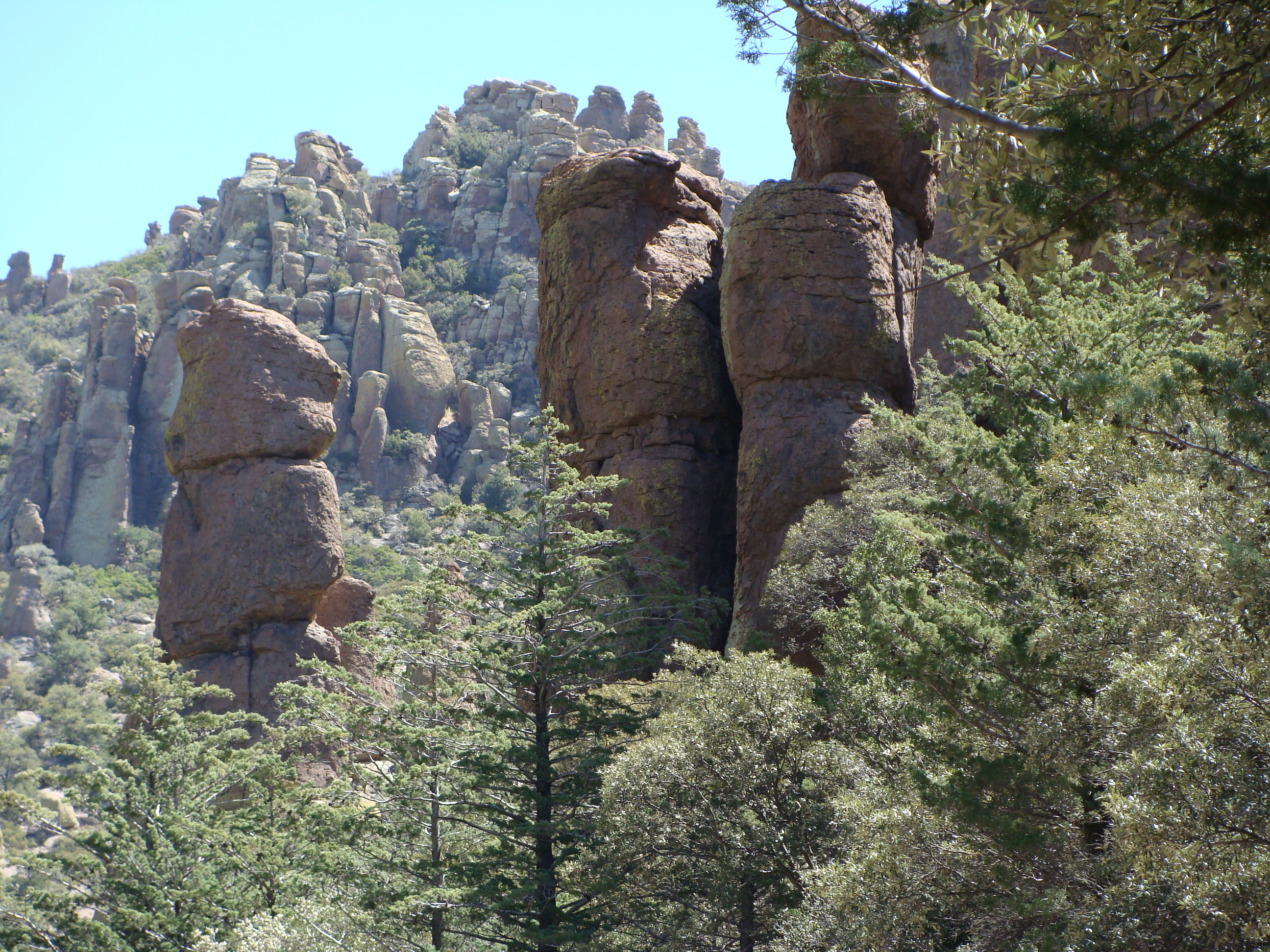 Chiricahua National Monument, Arizona. Mixed woodland with Cupressus arizonica (conical crowns) and Quercus sp.